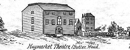 Accession No.: 07_10_000108 Cab. No.: Cab 23.58.1 Title: Tremont Street and Boylston Street in 1800 Date: 1800 Genre: Engravings Description: Copy photograph of engraving. Four separate views showing Tremont Street from Court Street to Bromfield Street; Tremont Street from Bromfield Street to West Street; Tremont Street from West Street to Boylston Street; and Boylston Street from Tremont Street to Carver Street. Image dated 1800, but this possibly a late 19th century facsimile of original. This image may not be part of the original collection. BPL Department: Print Department